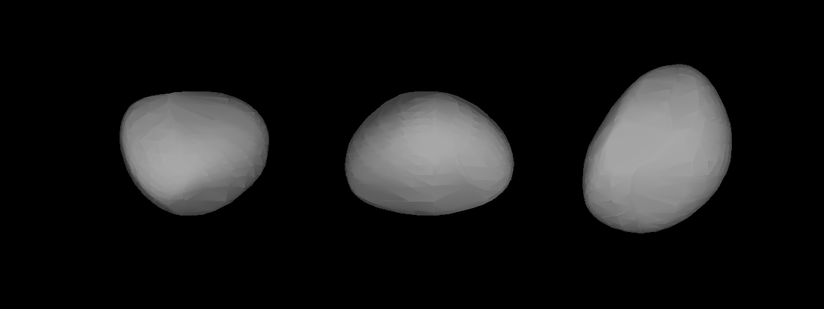 A three-dimensional model of 15 Eunomia that was computed using light curve inversion techniques.